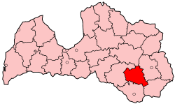 Map of Latvia showing Preili district.